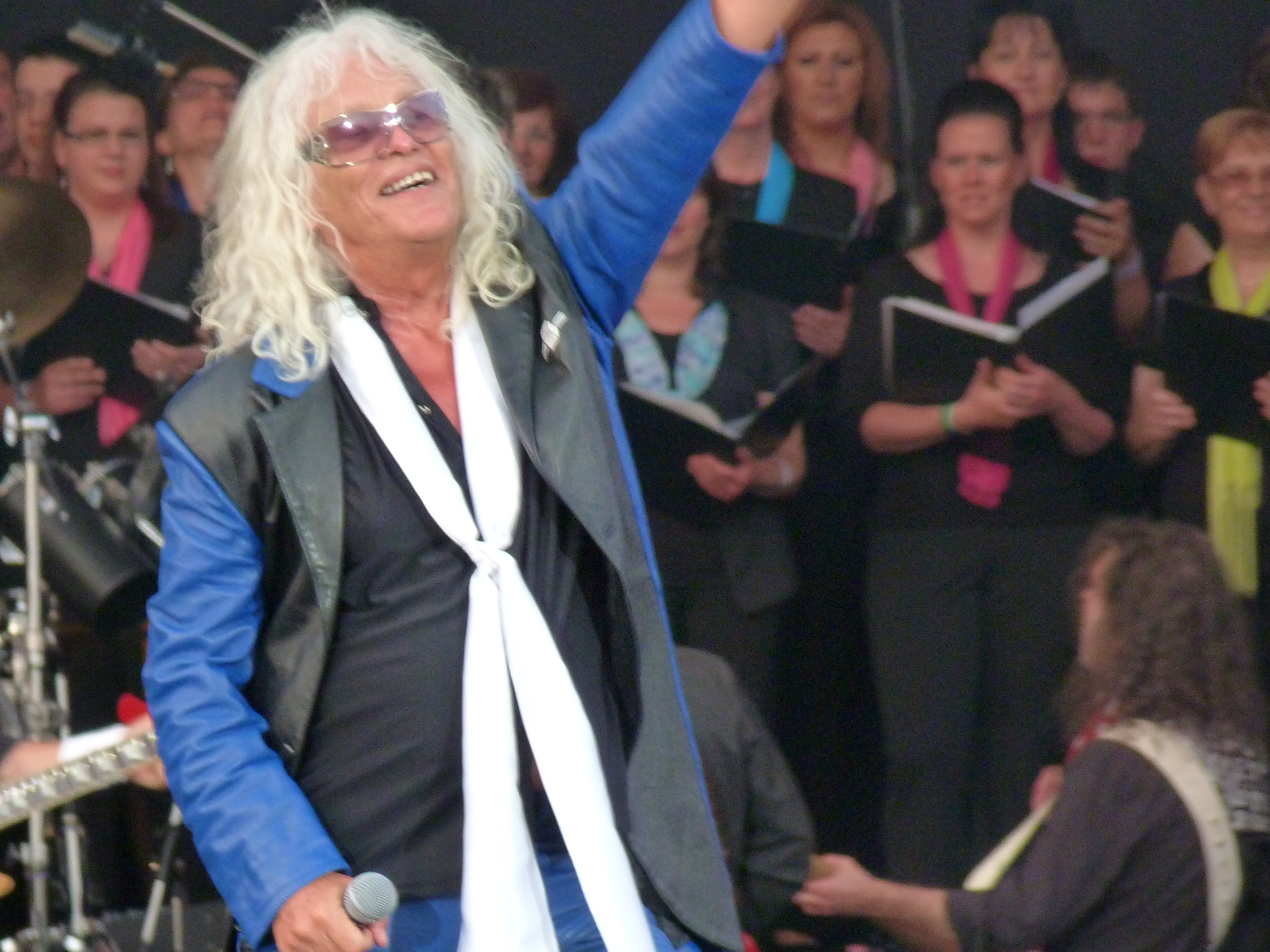 Live on the 16th of June 2014. It was 23 years ago, on the 19th of June, 1991, that the last soviet soldier left Hungary. Budapest, Hungary. Hősök tere (Heldenplatz, Heroe’s squere). Tags: Kóbor János Scorpions Omega Budapest Klaus Meine Kóbor János Rudolf Schenker Matthias Jabs Pawel Maciwoda James Kottak